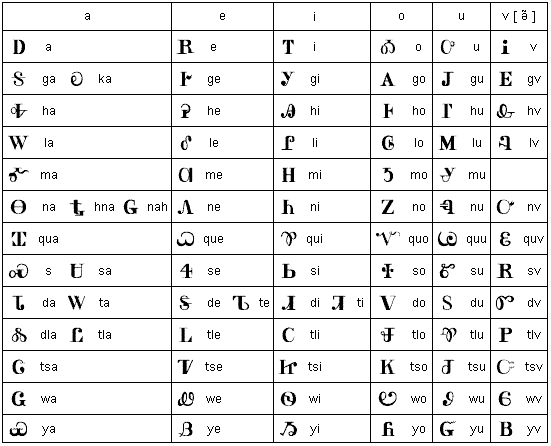 Cherokee syllabary from the eo wikipedia